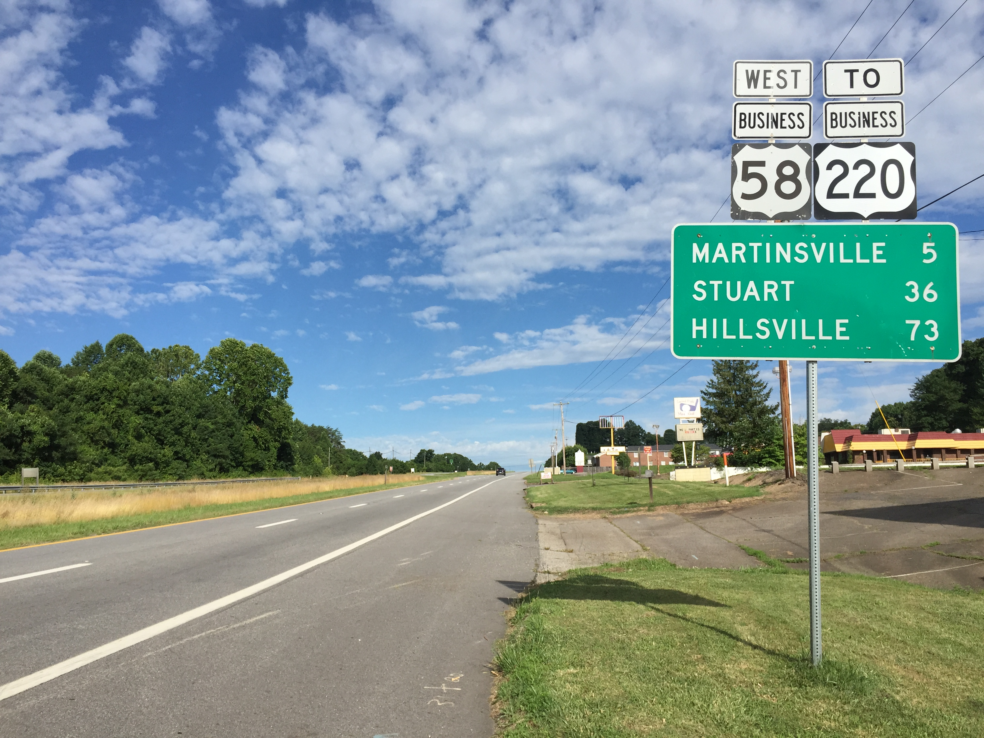 View west along U.S. Route 58 Business (A L Philpott Highway) at Dogwood Drive (Virginia State Secondary Route 930) in Laurel Park, Henry County, Virginia